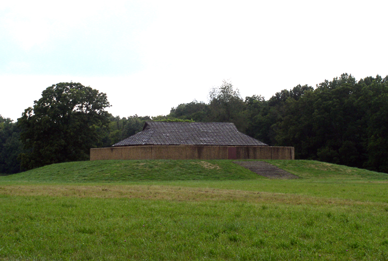 Reconstructed "Mound F and The Temple" at the Mississippian culture Angel Mounds site in Evansville, Indiana. All rights held by the artist, Herb Roe© 2020.